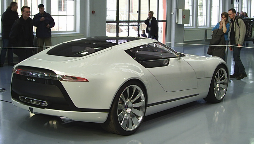 SAAB AERO X shown March 25 2006 at the Saab Car Museum in Trollhättan, Sweden. Photo:Tubaist